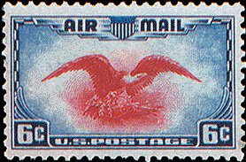 May 14, 1938 5¢ Carmine & Blue Eagle & Shield C23 349,946,500